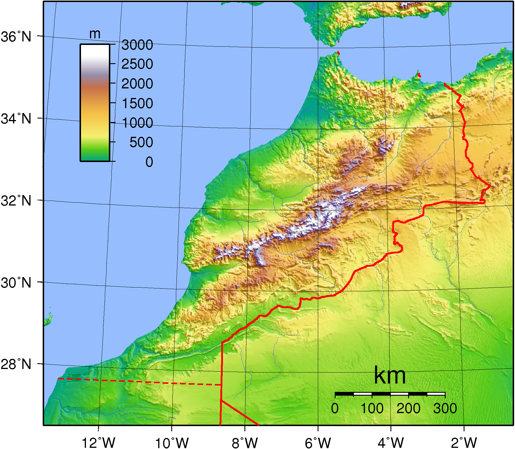 Topographic map of Morocco. Created with GMT from publicly available GLOBE data.